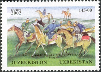 Stamps of Uzbekistan, 2002, game of buzkashi